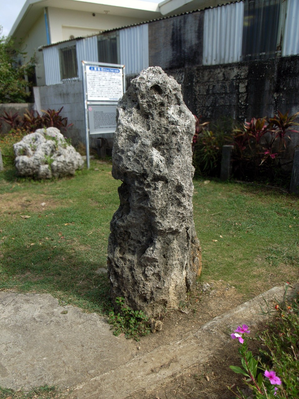 Nintouzei-seki, Miyako Island, Okinawa Prefecture, Japan